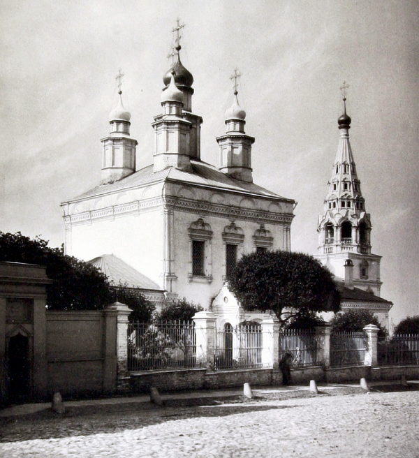 Church of St Nicholas in Vorobino, Moscow.